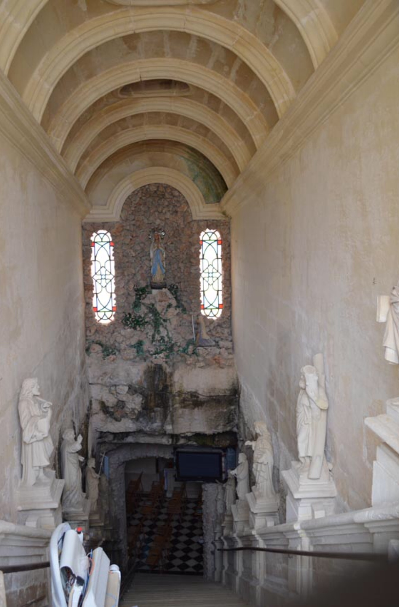 Church of the Annunciation This media is about Maltese cultural property with inventory number 00781.